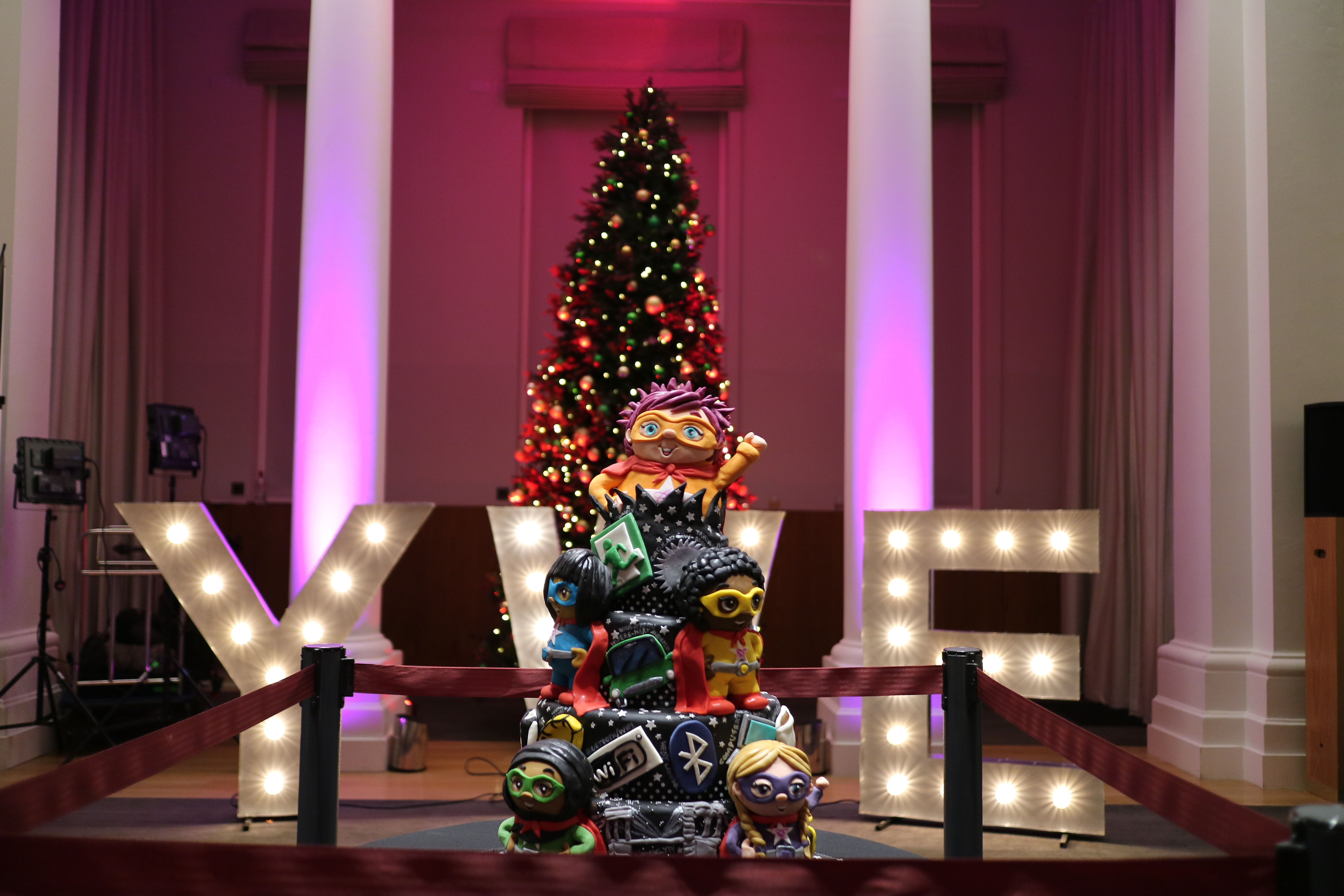 "Extreme Cake Makers" cake made for the IETs YWE awards, 2018. The award ceremony was held at Savoy Place, London. The illuminated letters "YWE" and a Christmas tree are also visible.